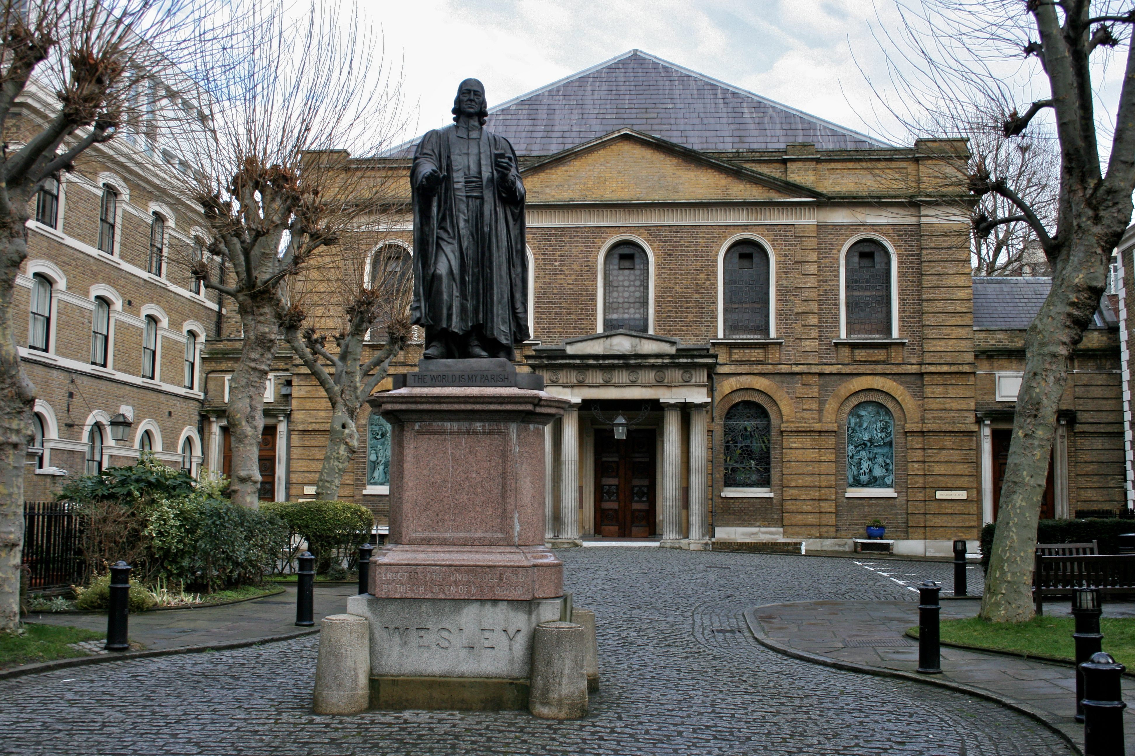 Wesley's Chapel, House & Museum, with a statue of John Wesley in the foreground.